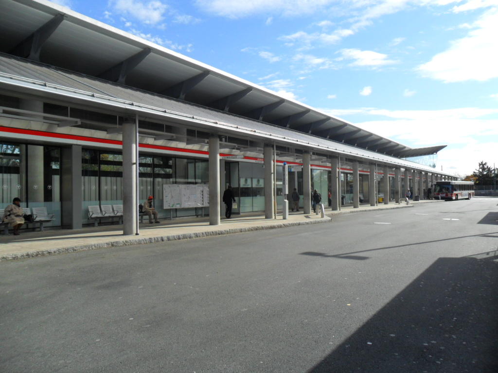 Busway at Ashmont station on the southern end of the Ashmont Branch of the MBTA Red Line, with a BAT route 12 bus